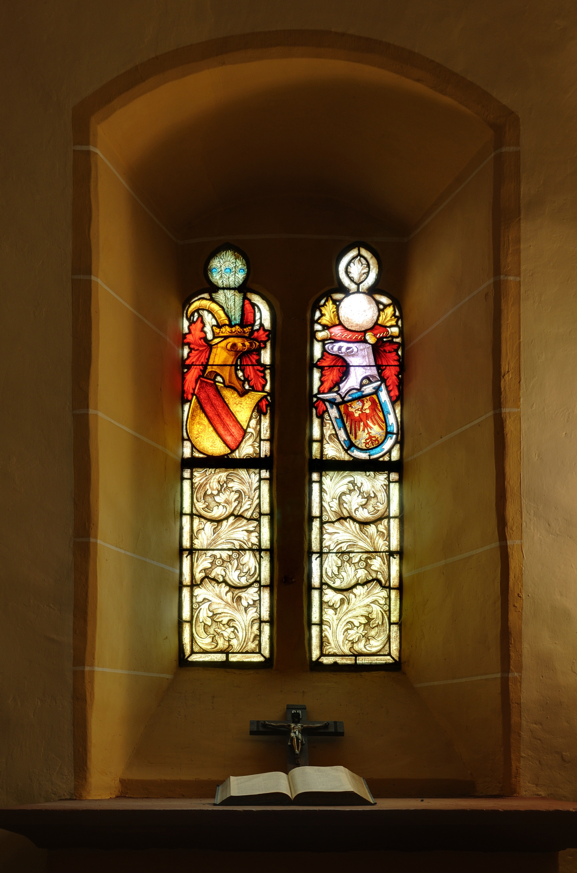 Lörrach: Church of Rötteln, window in sepulchral chapel